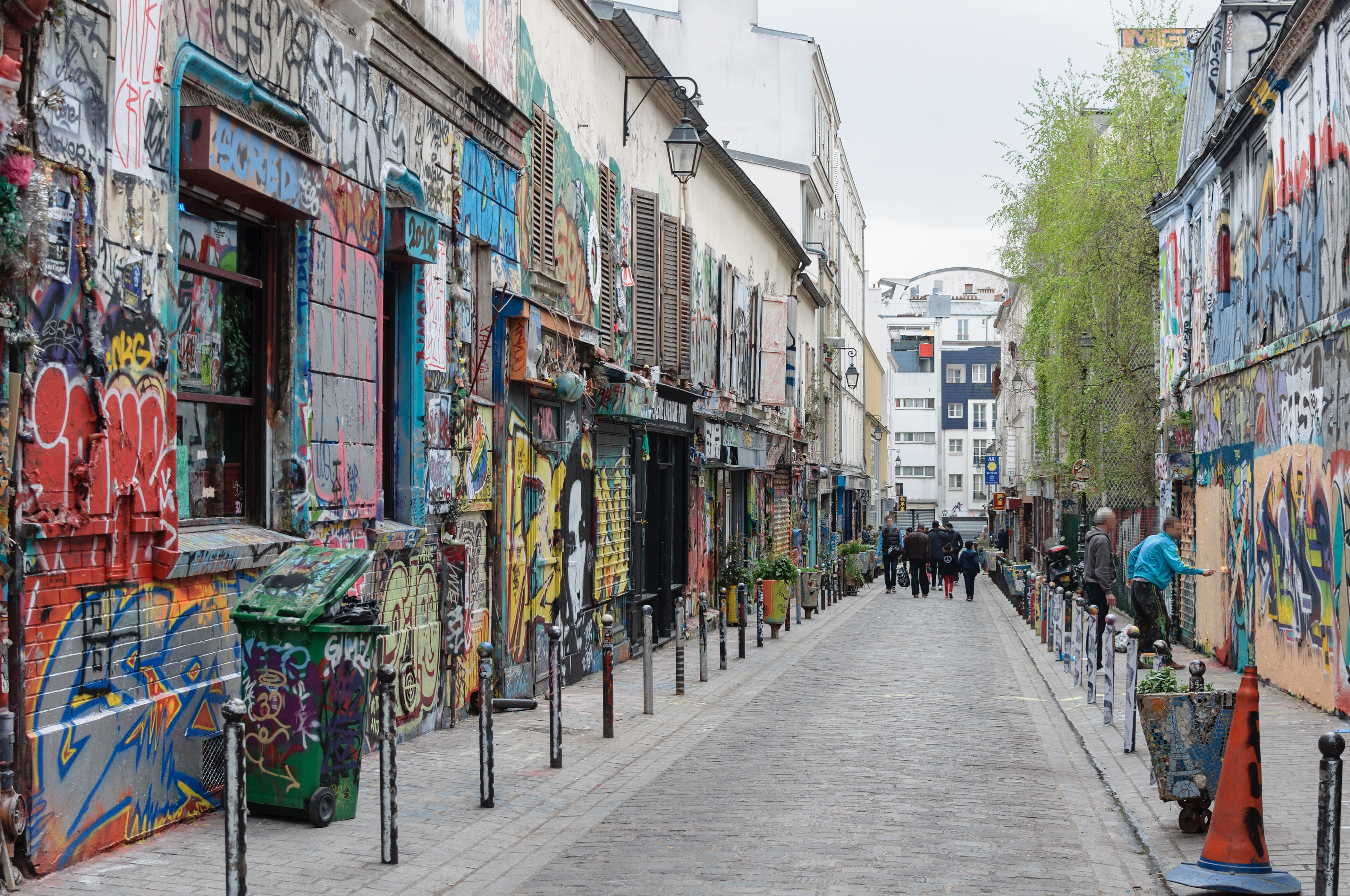 Rue Dénoyez, Belleville, 20th arrondissement of Paris, France.